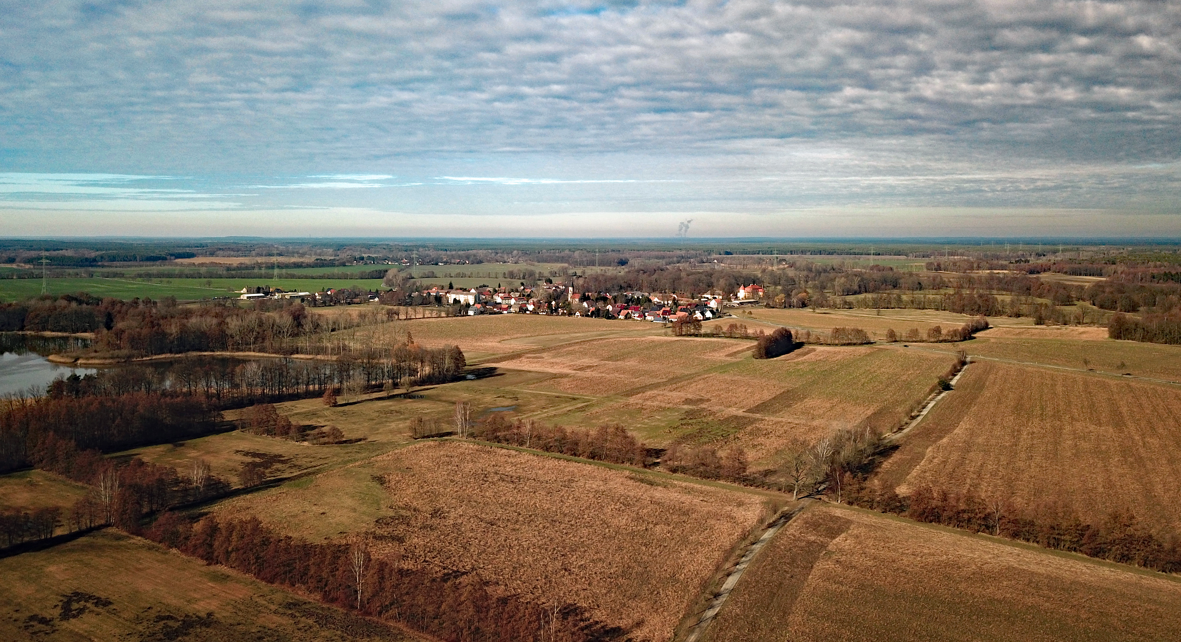 Milkel, Radibor, Saxony, Germany Hornjoserbsce: Powětrowy wobraz Minakała z juha